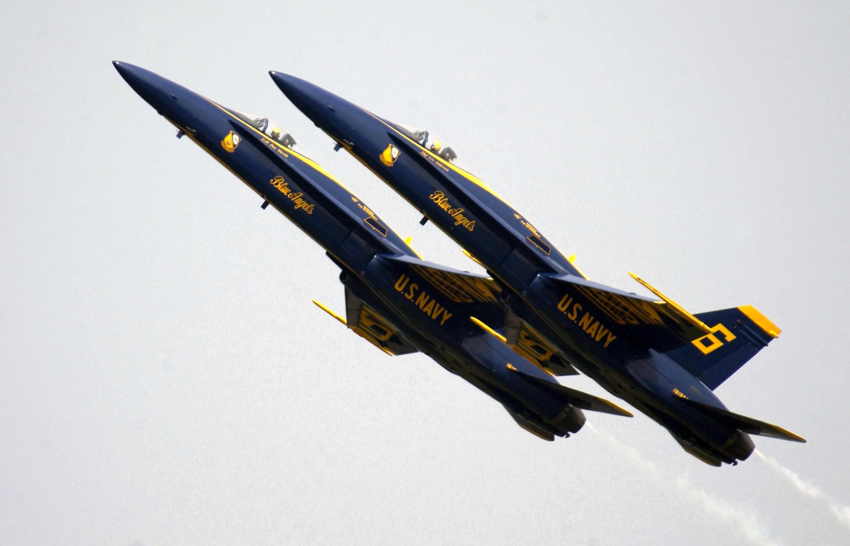 Solo aircraft assigned to the U.S. Navy's Flight Demonstration Team, "Blue Angels", perform the slowest maneuver in their show, the "Section High Alpha." During the maneuver the two jets slow down to 125 knots as they pitch the nose of the F/A-18 Hornet up to 45 degrees.